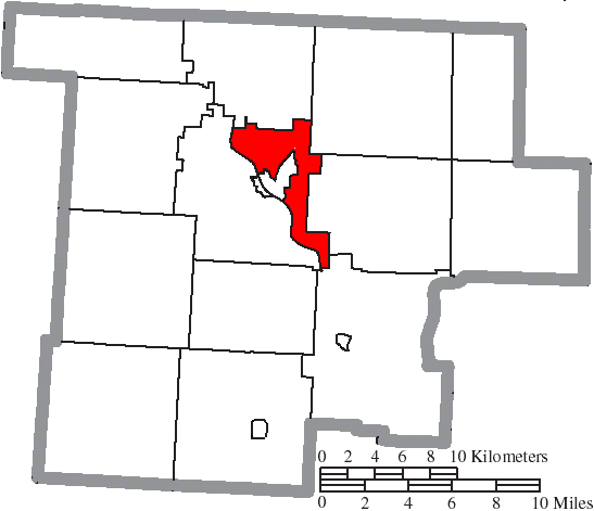 Map of the municipal and township boundaries of Morgan County, Ohio, United States, as of the 2000 census, with the location of Morgan Township highlighted. Township borders are shown only in unincorporated areas in order to differentiate incorporated and unincorporated areas more clearly.